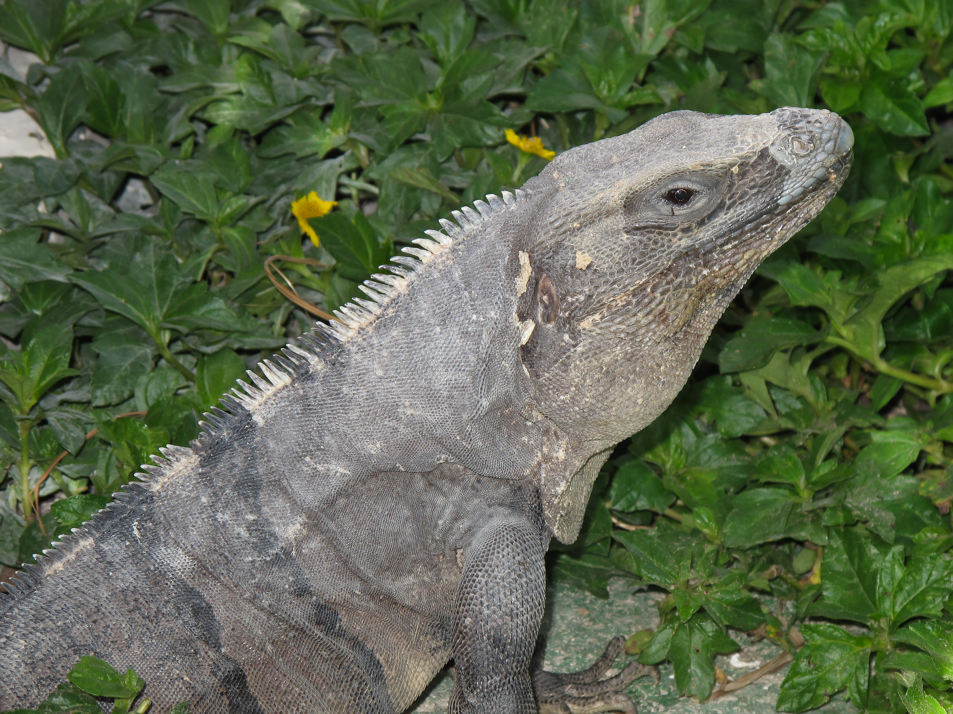 Ctenosaura similis, Hotel Bay Prince, Chacumal. Federal highway 307 Cancún-Chetumal. MexicoGalego: Ctenosaura similis, Hotel Baía Príncipe, Chacumal. Estrada federal 307 Cancún-Chetumal. México